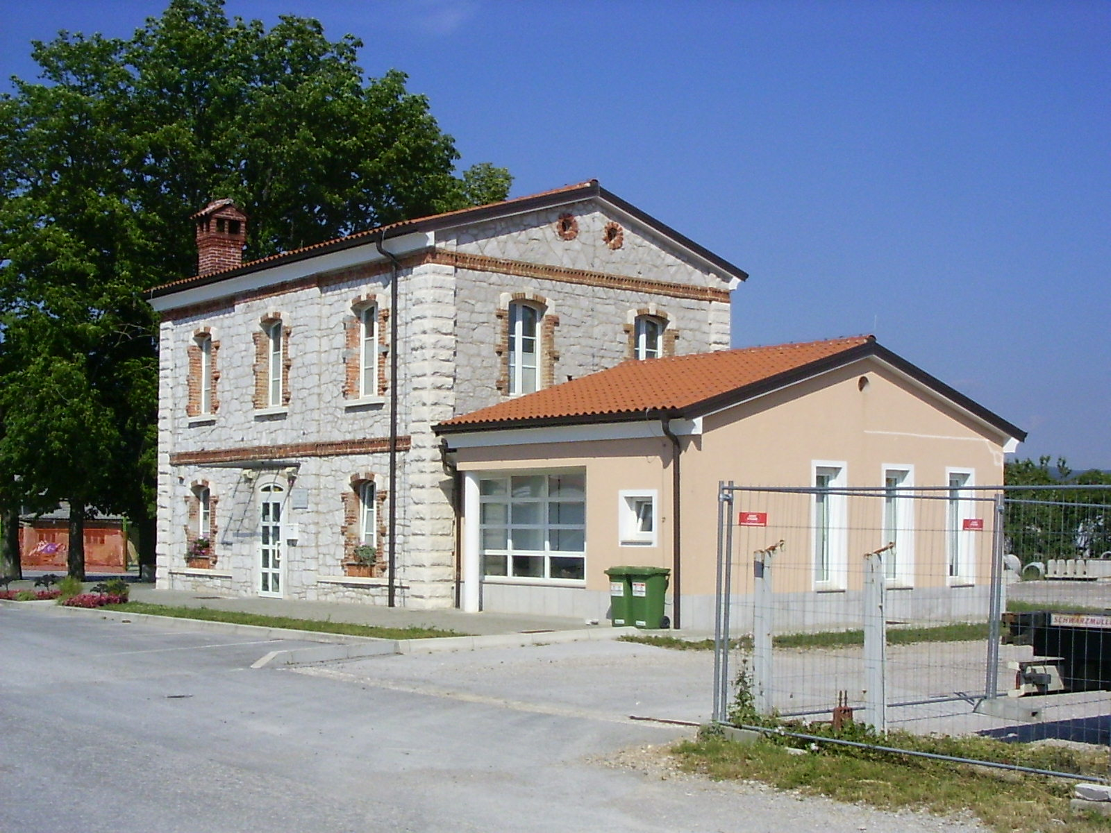 Library of Hrpelje - Kozina